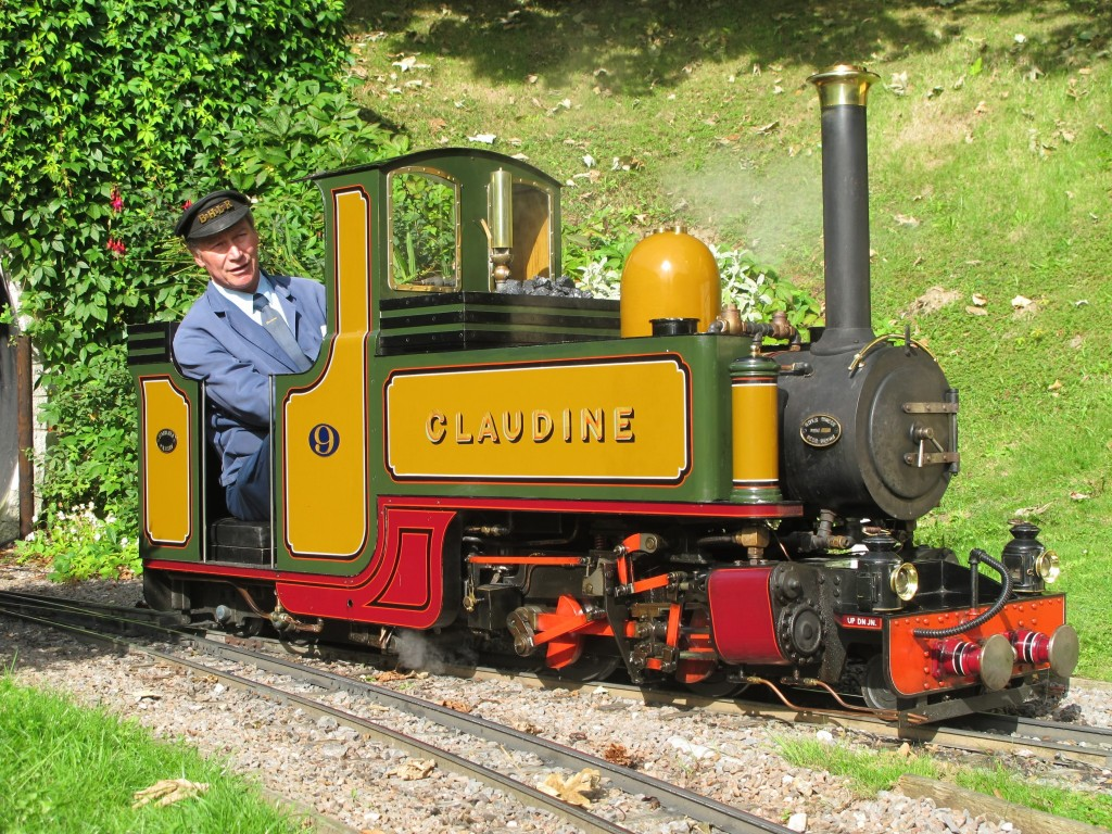 BHLR Claudine